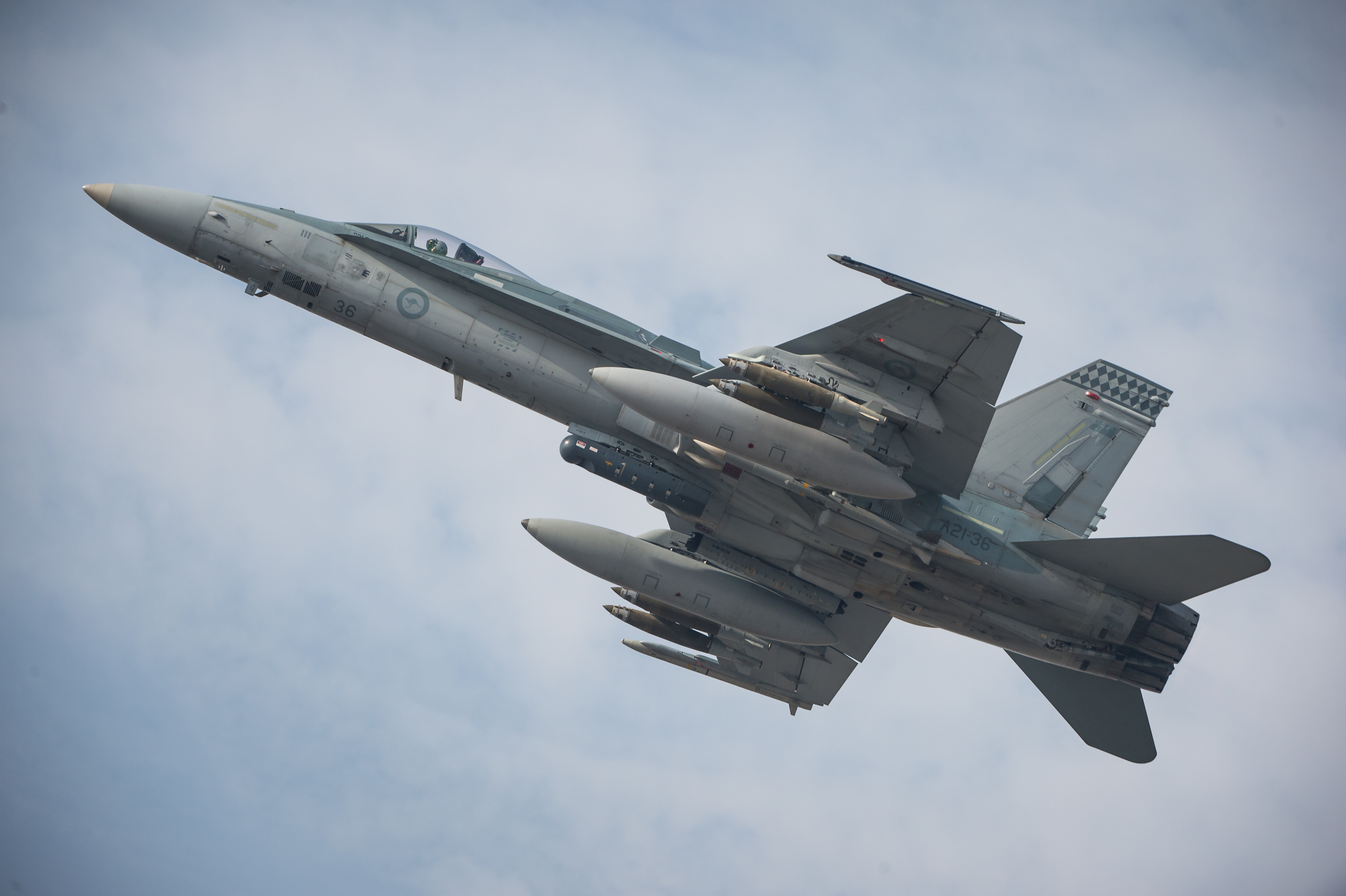 A Royal Australian Air Force F/A-18A Hornet takes flight in support of Operation Okra at an undisclosed location in Southwest Asia, Feb.23, 2017. The RAAF is supporting Combined Joint Task Force-Operation Inherent Resolve through Operation Okra. Since operations commenced in 2014, the F/A-18A Hornets and F/A-18F Super Hornets have flown more than 12,000 hours during more than 2,000 sorties and delivered more than 1,600 munitions. (U.S. Air Force photo/Senior Airman Tyler Woodward)